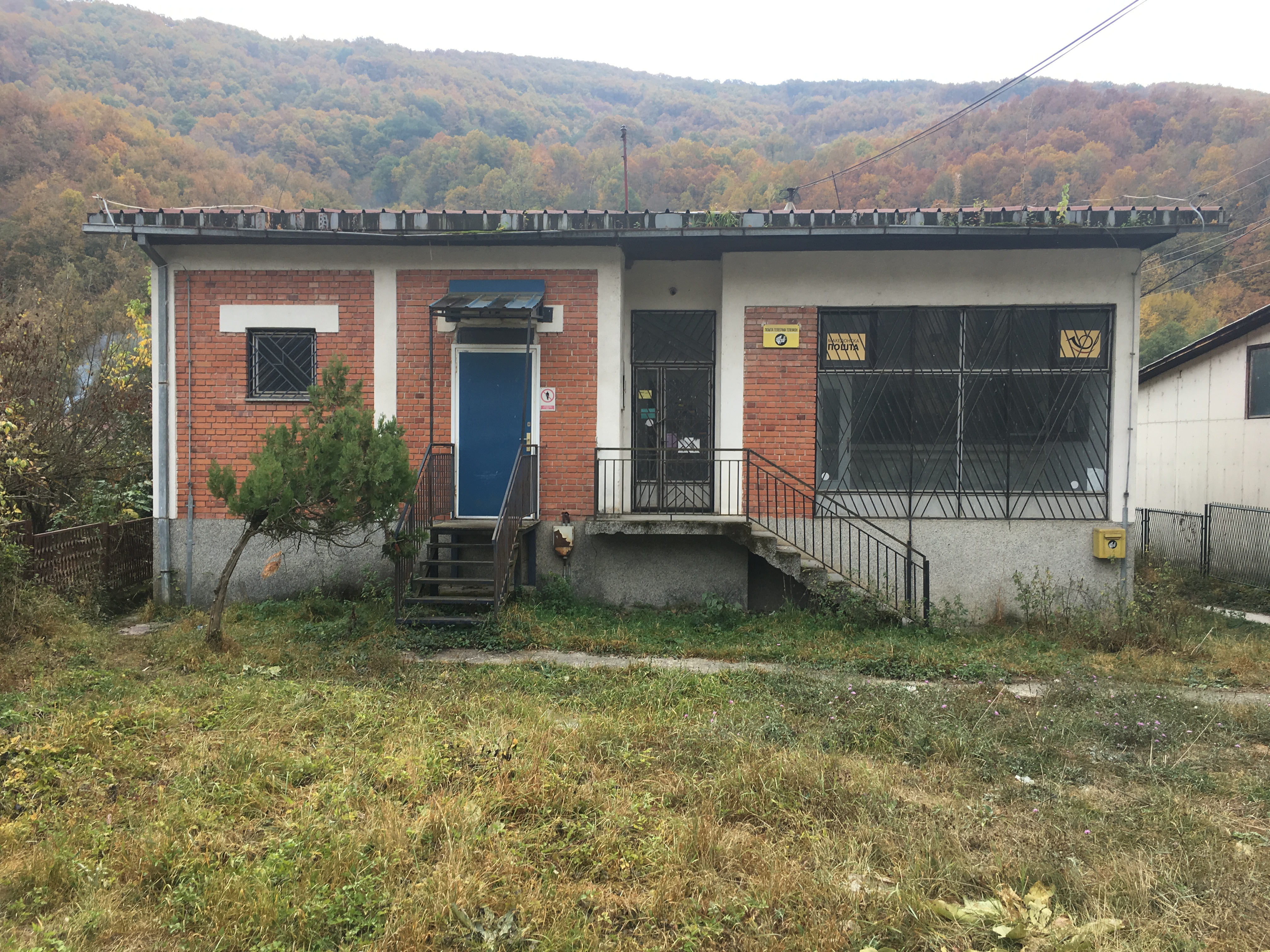 Wikiexpedition to Kopačka